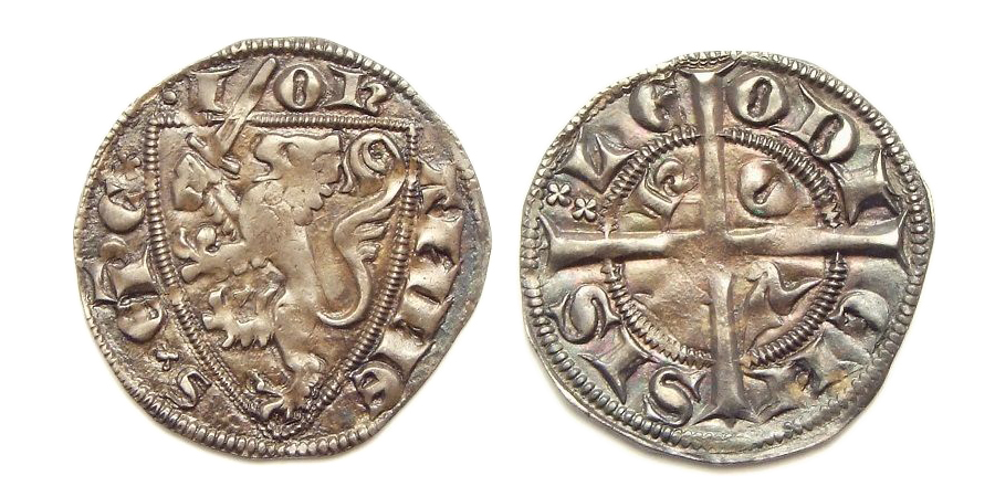 Prince-Bishopric of Liège, John of Flanders, Prince-bishop of Liège (1282-1292), esterlin struck in Huy. Obverse: Shield with lion rampant and sword which breaks through the border; legend: ·I Oh ANNE S×EPC. Reverse: Long cross with H O Y I in the angles; ✤✤ LE ODI EN SIS around.